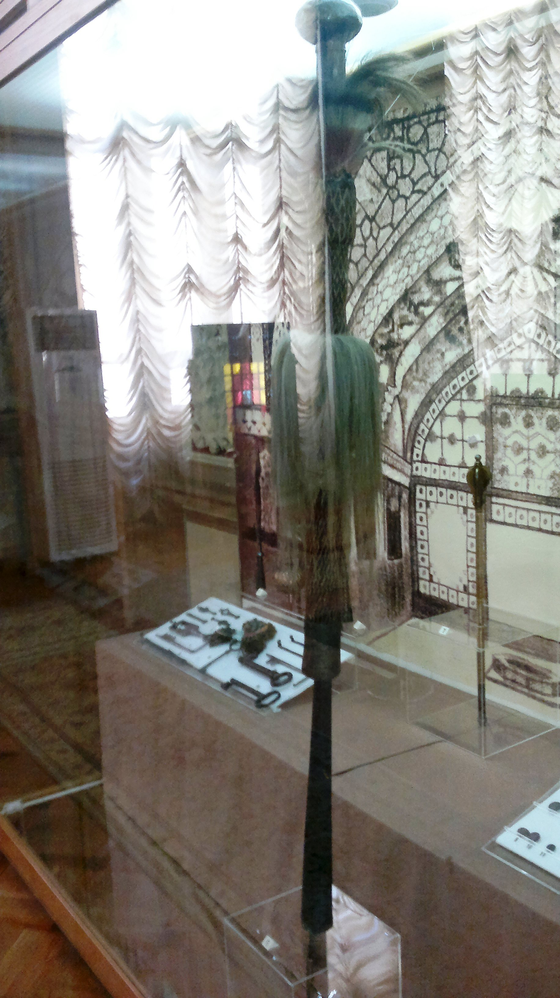 Bunchuk (symbol of power) owned by of Javad khan of Ganja (wood, copper, horse hair). Museum of History of Azerbaijan, Baku.